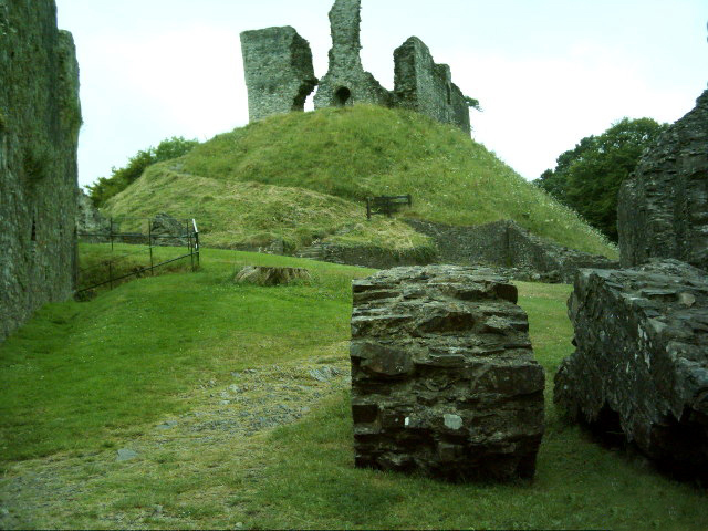 Okehampton Castle 'motte' This is the 'motte' of Oakhampton castle. A motte is an enditched mound, usually artificial, which supported the strongpoint of the motte-and-bailey castle, overshadowing the bailey or enclosed courtyard below. The castle was built in as a 'chivalric' type castle. ie: it was built by a rich lord to impress his friends and the local populace with his knightly castle. As it never actually saw any action, or was ever defended. First mentioned in the Domesday Book as the first castle to be built at Okehampton, by the Sheriff of Devon, during the late 11th century. The castle was largely abandoned in 1539 after its owner, Henry, Marquis of Exeter, was found guilty of conspiracy and executed by Henry VIII.